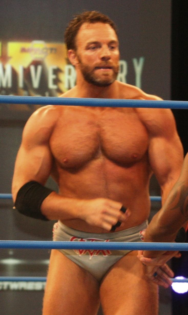 Eli Drake at Slammiversary XV event.